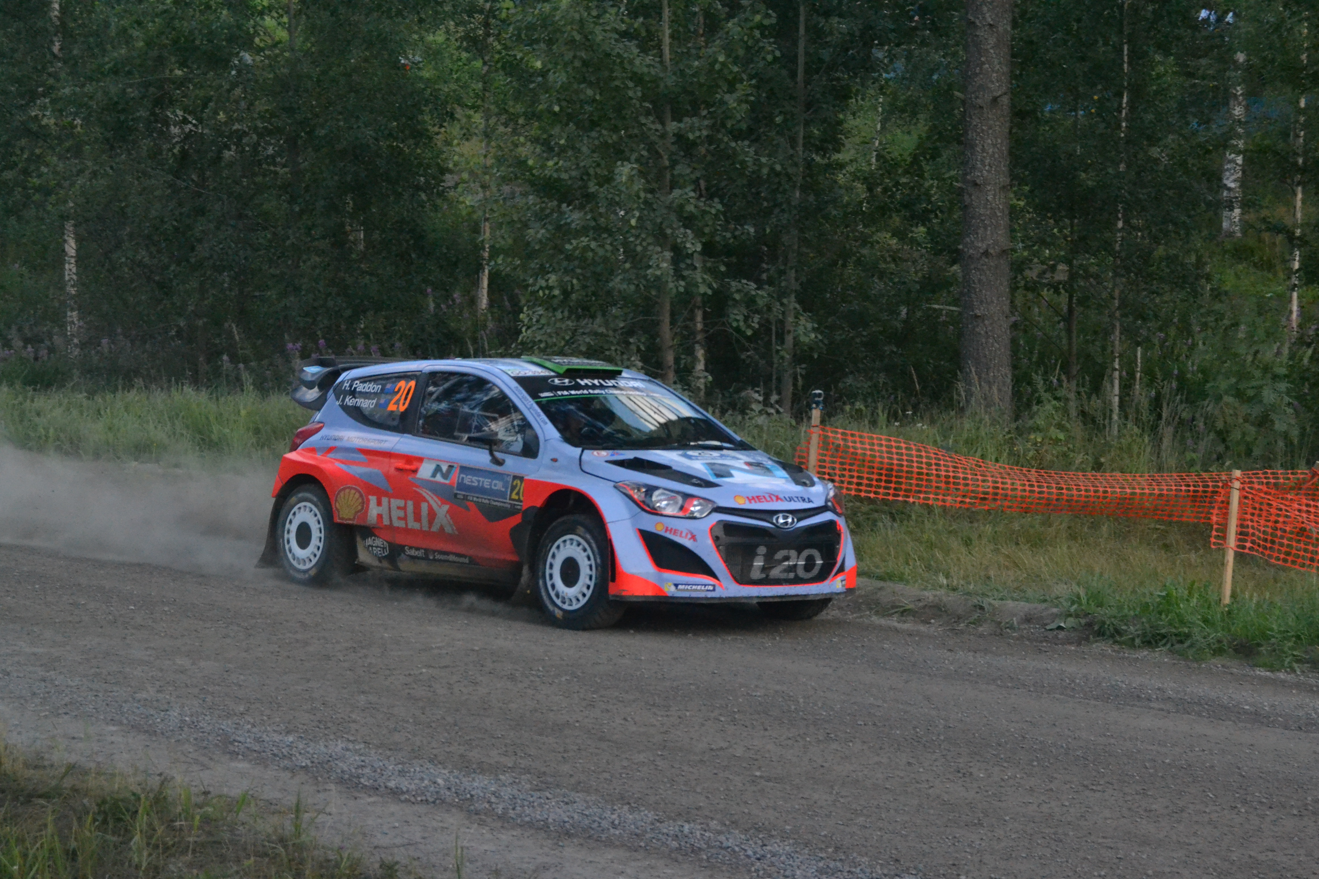 Hayden Paddon at 2nd Painaa stage at Rally Finland 2014